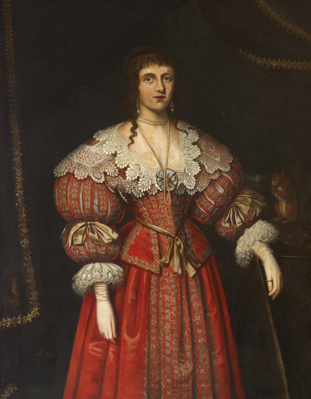 Portrait of Elizabeth Hext (d.1657), Lady Stawell